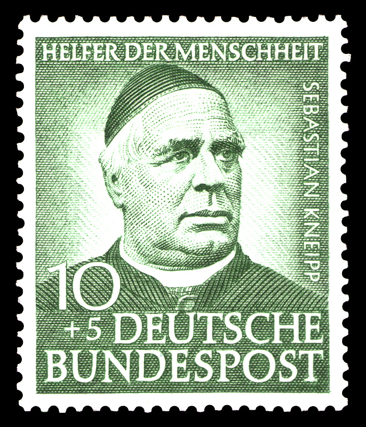 Social welfare stamp series 1953, Sebastian Kneipp (1821-1897) Graphics by Hermann Zapf Ausgabepreis: 10+5 Pfennig First Day of Issue / Erstausgabetag: 2. November 1953 Michel-Katalog-Nr: 174